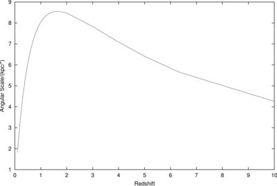 The angular size redshift relation for a Lambda cosmology. This shows how the number of kiloparsecs per arcsecond changes with redshift. Note that after a redshift of about 1.5, objects appear larger with increasing distance. This was calculated using the web page of E. L. Wright